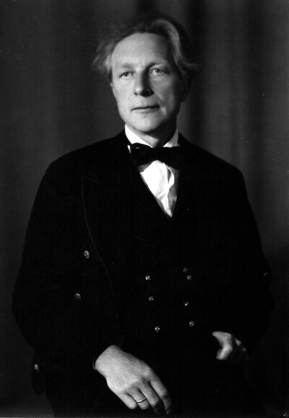 Norwegian composer, folk music collector and musician Eivind Groven (1901-1977). Photographer Hugo Wickmann